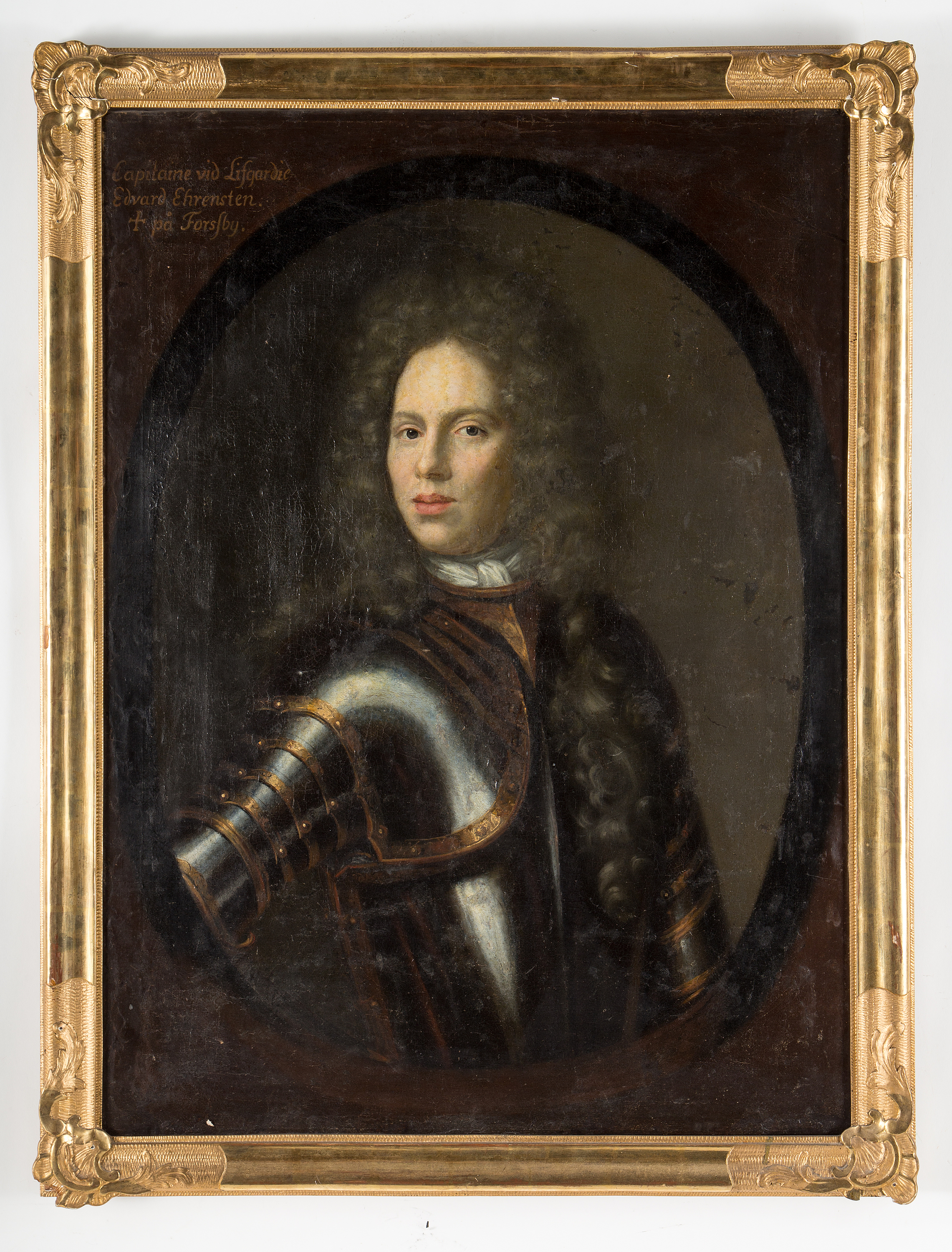 The Swedish statesman Edvard Ehrensten, painting by Martin Mijtens the Elder.